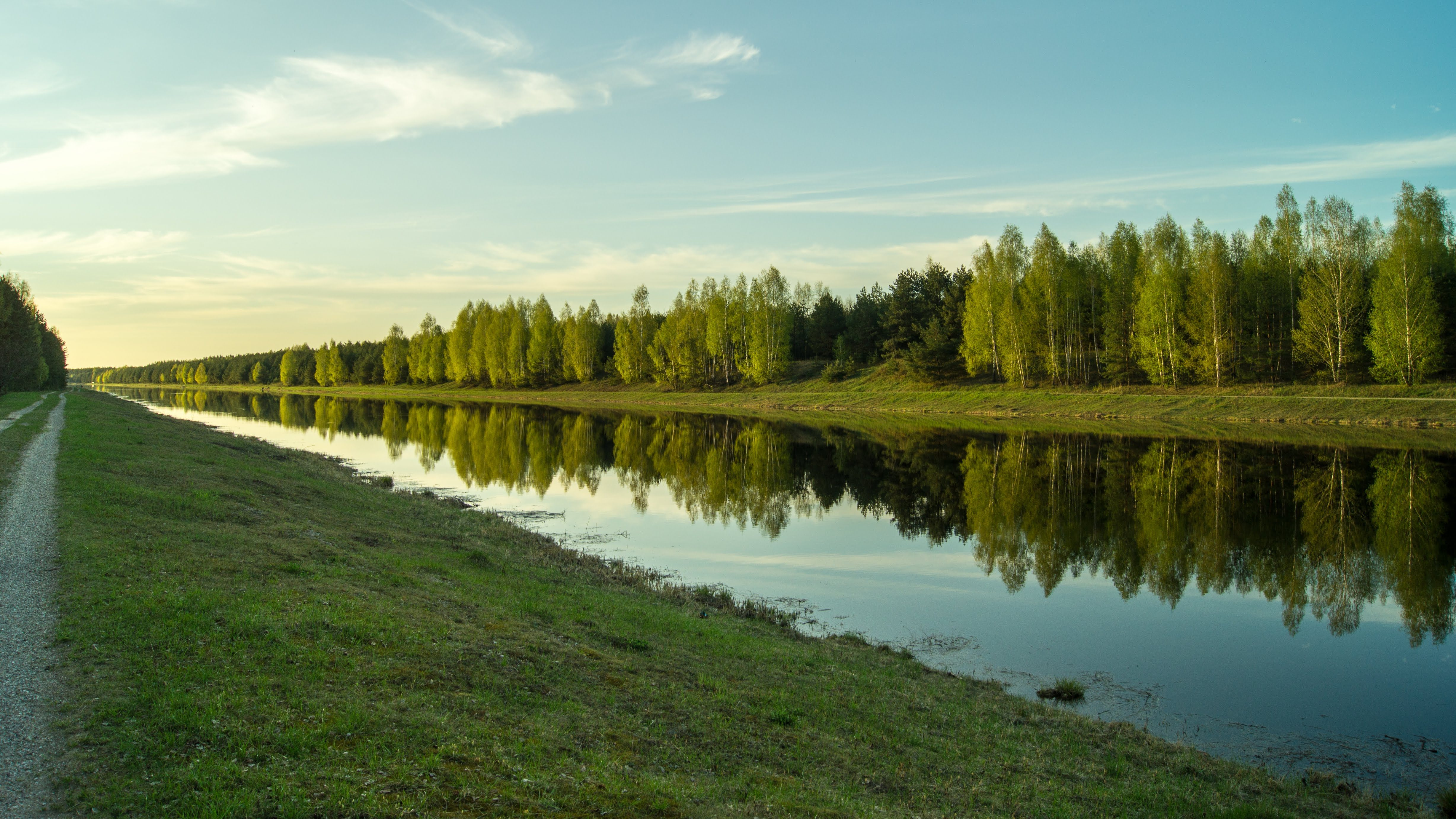 Vileika-Minsk water system: The main channel